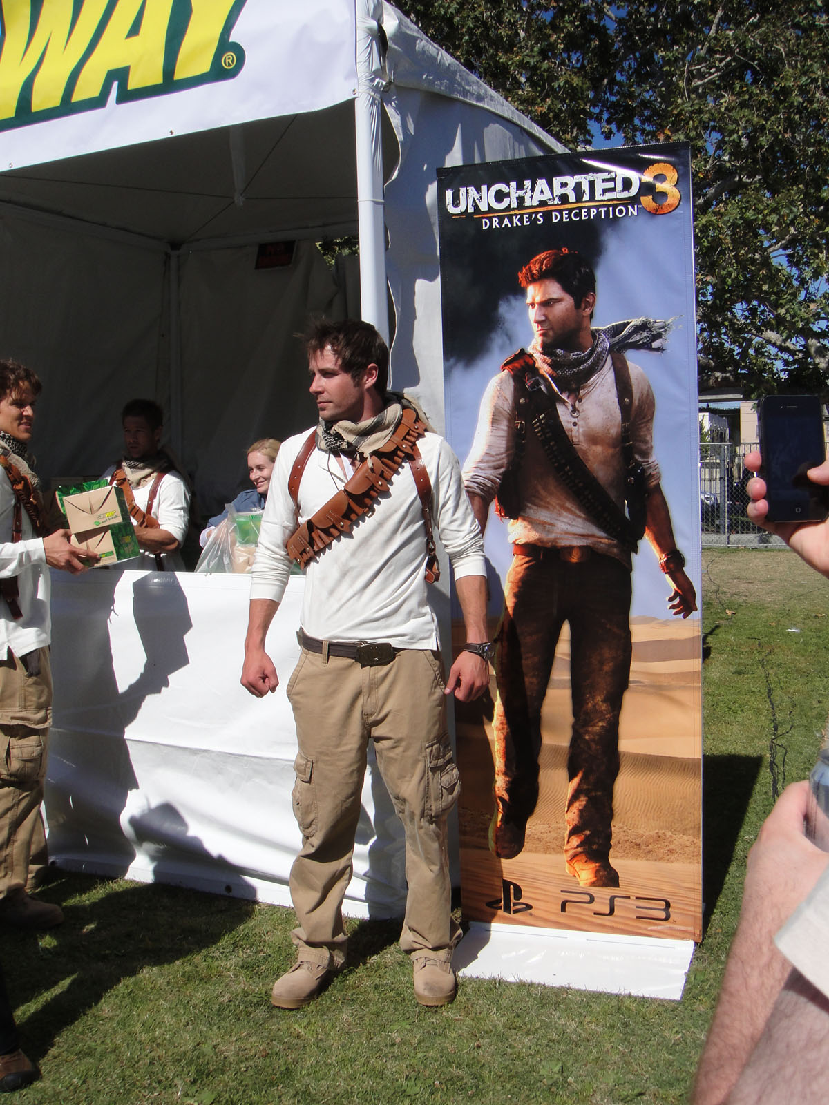 photo 2011 taken by Doug Kline If you're interested in higher resolution versions of my images, contact me via my profile page.